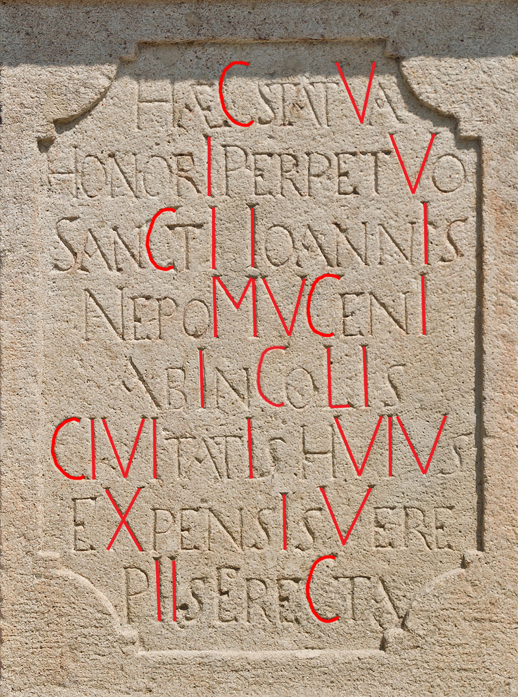 Chronogram on a base figure of St. John of Nepomuk in Lądek-Zdrój